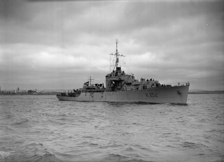 Photograph of River class frigate HMS Helford.